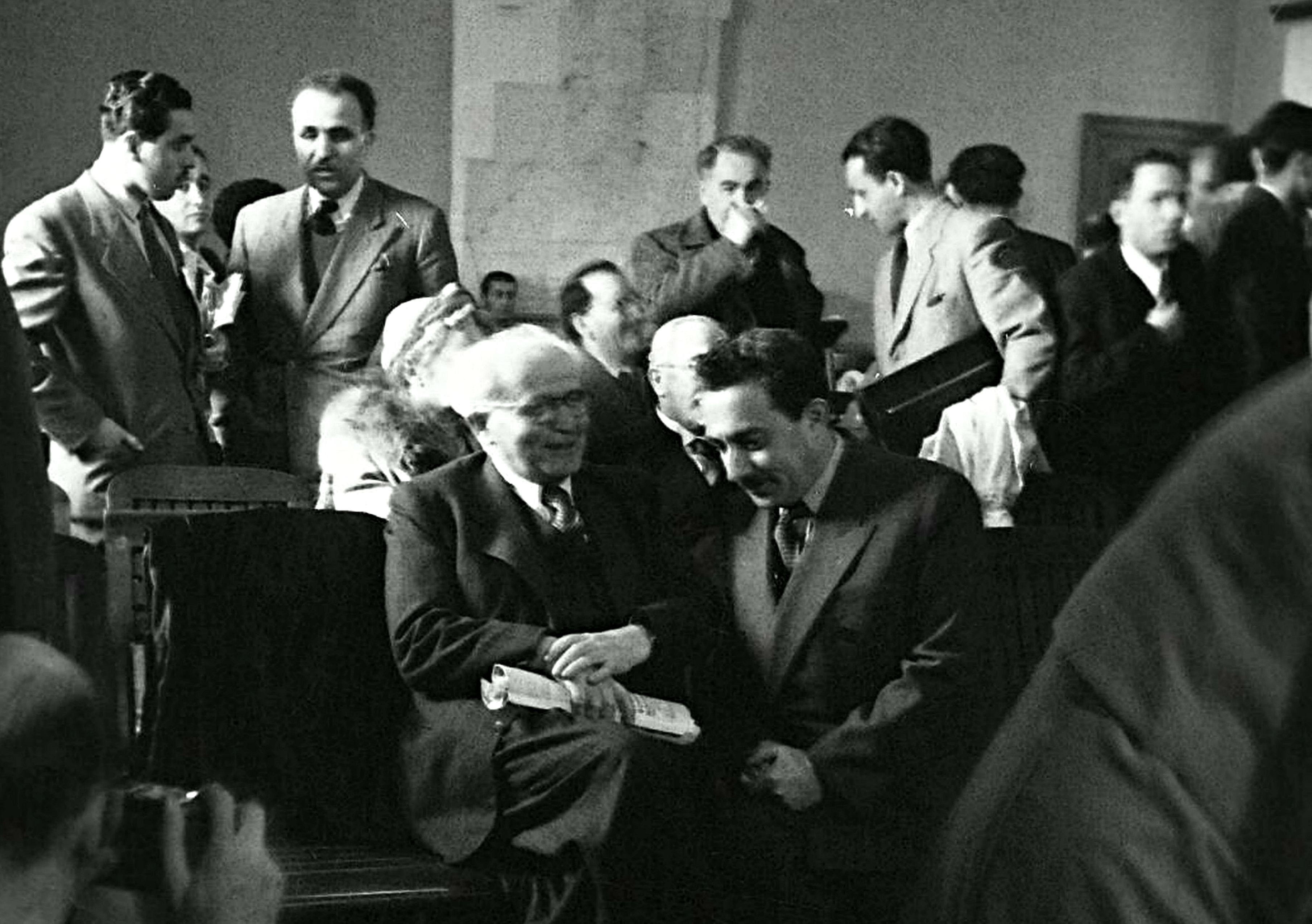 David Ben-Gurion and Moshe Sharett testifying before the Anglo-American Committee of Inquiry in Jerusalem